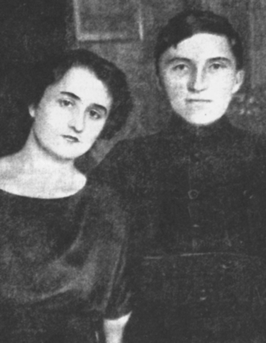 Photograph of the Romanian literary and amorous couple George Topîrceanu–Otilia Cazimir.